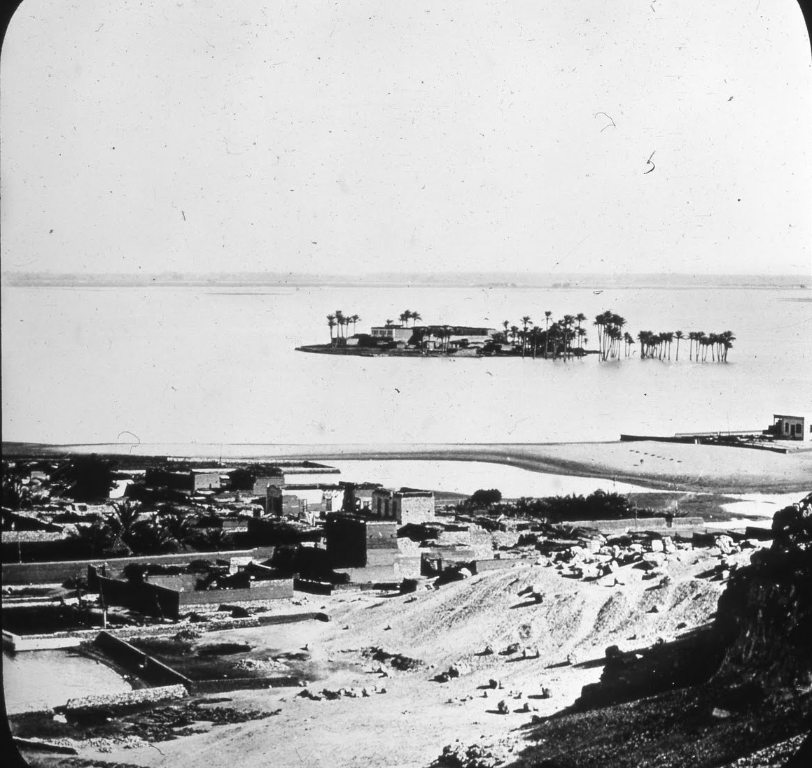 Photograph taken by Petrie of the view from his rock tomb, showing the village below.